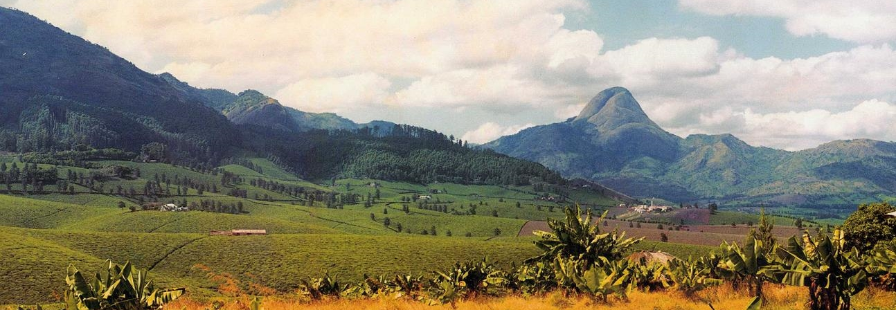 Photograph of Mount Murresse taken from the backyard of my grandfather, Dr. Oliveira, by an uncle of mine. Paulo Oliveira 01:17, 14 May 2005 (UTC) (C) Rui Oliveira, 2000.